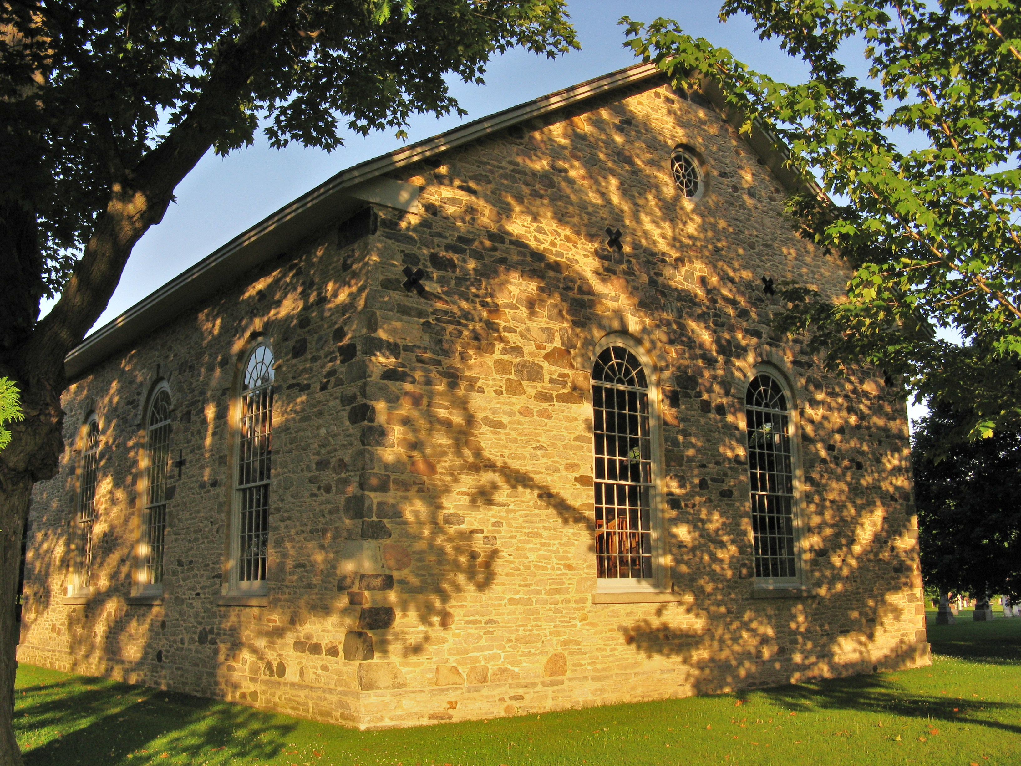 Old Stone Church National Historic Site, Beaverton, Ontario Other information If used outside Wikipedia, attribute to Yoho2001.